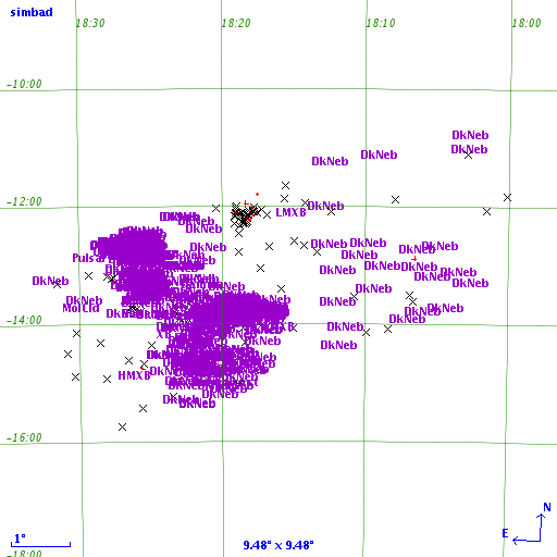 The image is a plot of dark nebula (DNe) over the error box of Serpens XR-2. Credit: Aladin at SIMBAD.